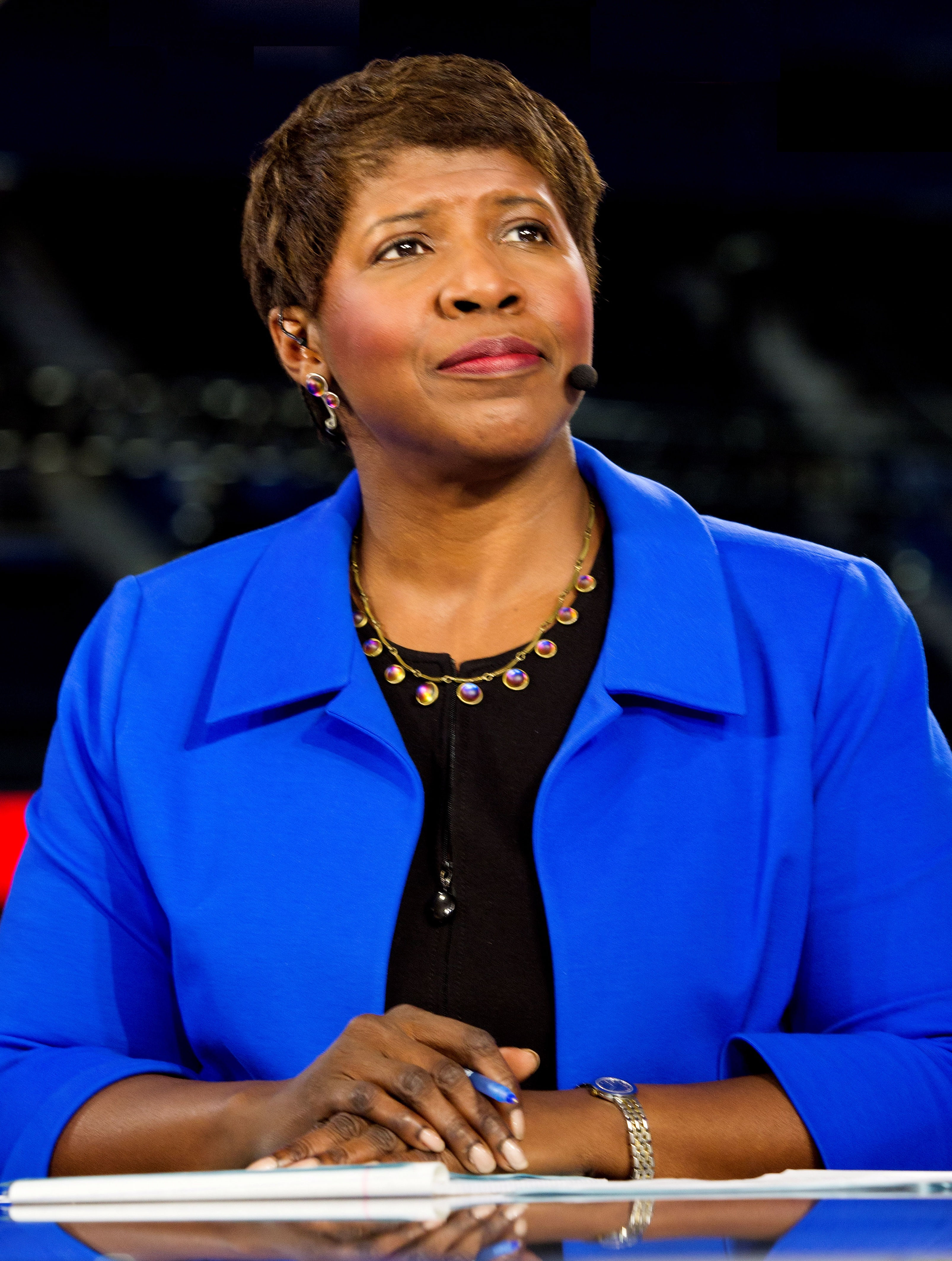 Behind the scenes of PBS NewsHour with Gwen Ifill and Judy Woodruff